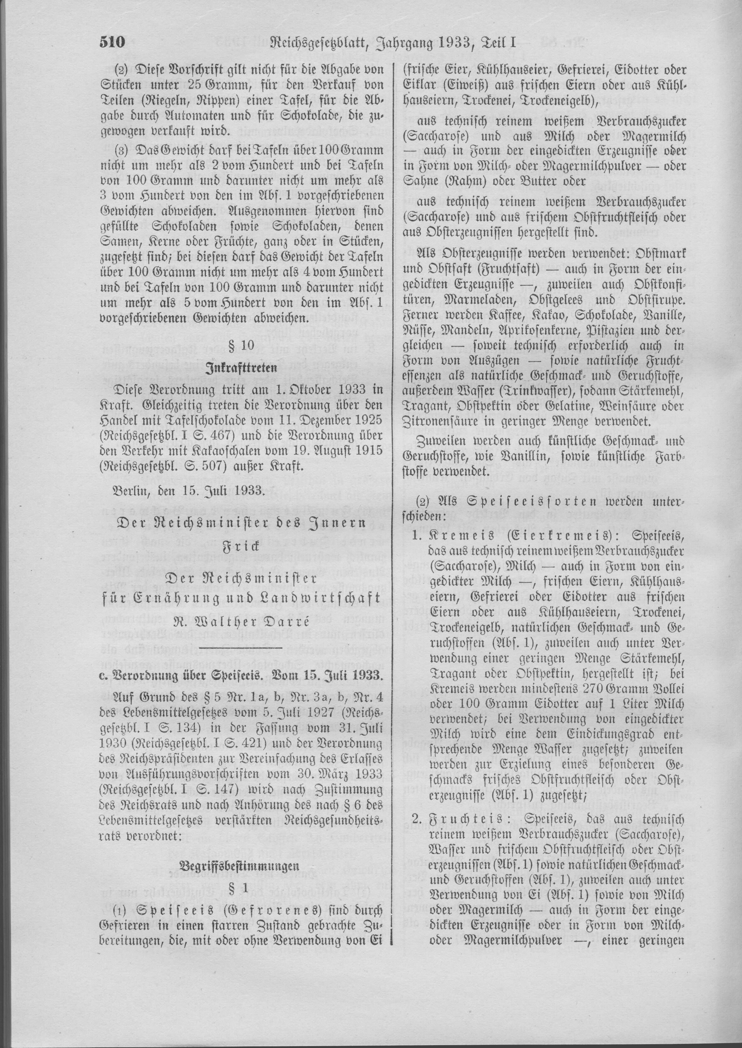 Scan from the Imperial Law Gazette of Germany, 1933, part 1